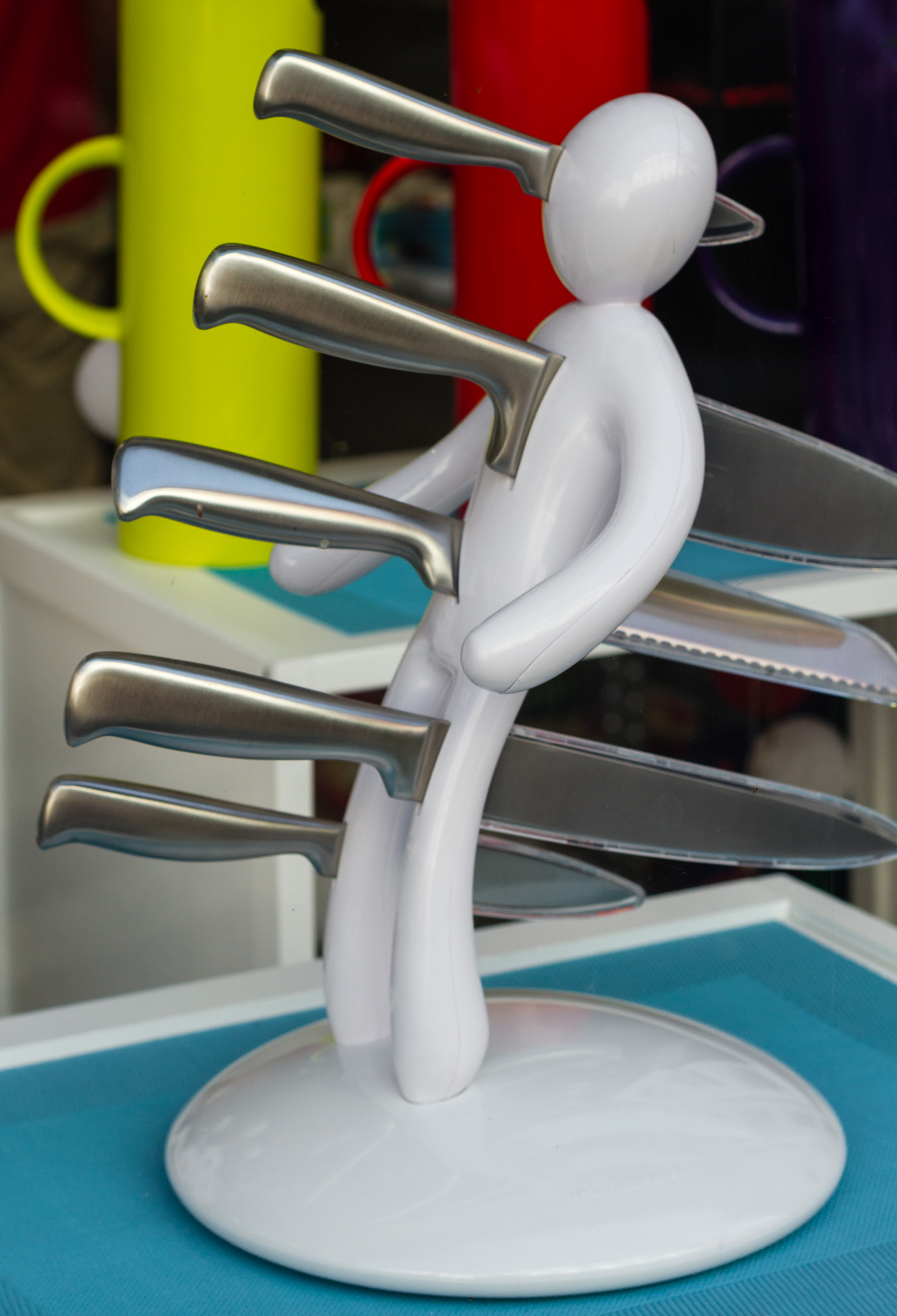 Voodoo knife block